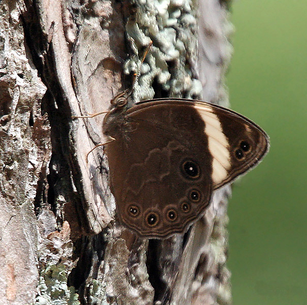 STRAIGHT-BANDED TREEBROWN Lethe verma Aurivillius. Shot taken at Kasol, Kullu Distt., Himachal, India during Sar Pass Trek (around 6500 ft.).